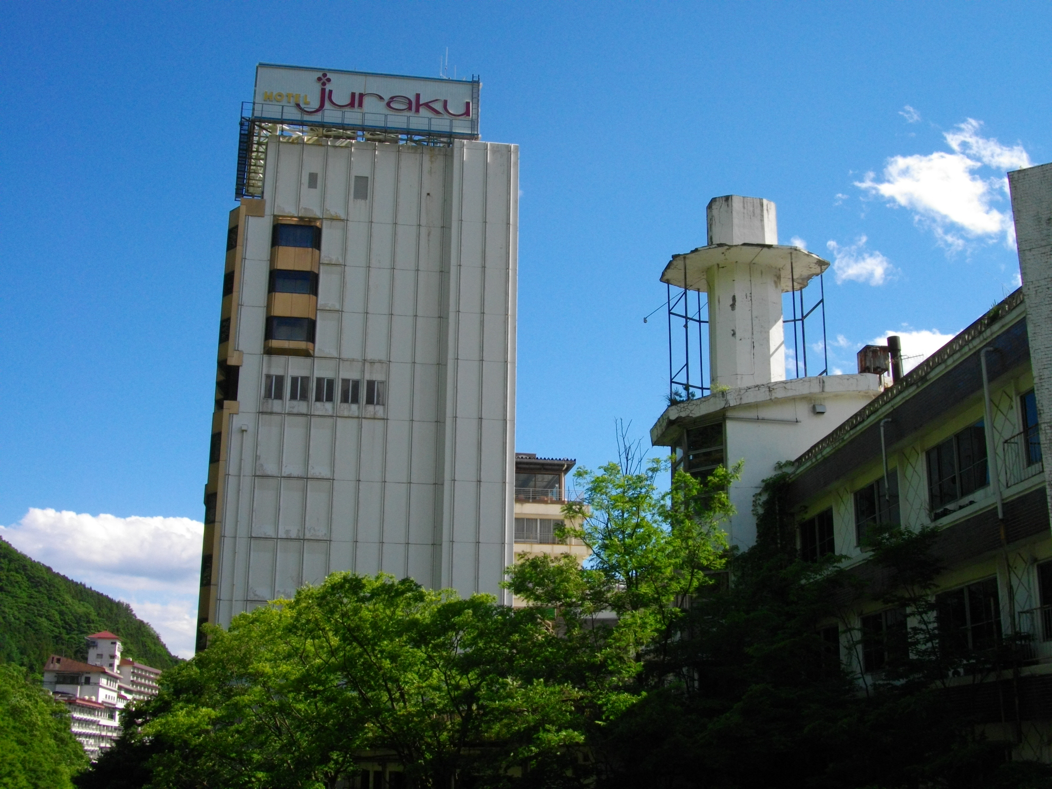 Minakami Hotel Juraku